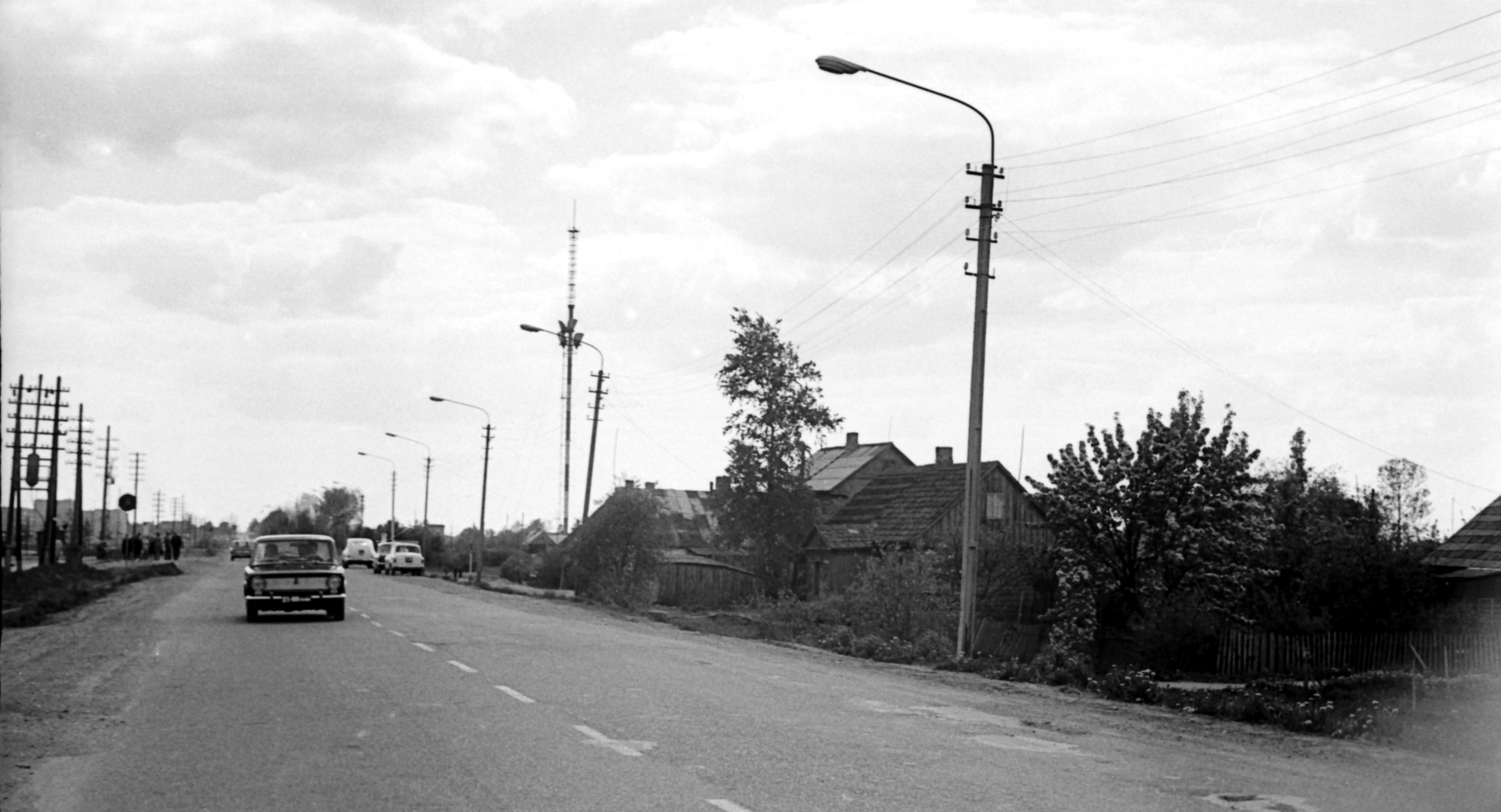 Former Besarabija village in Šiauliai, Lithuania